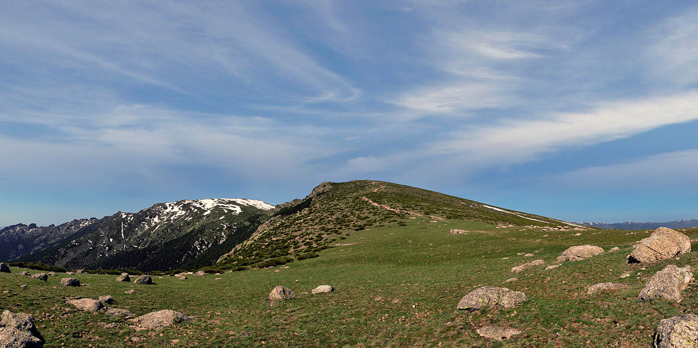 A view of the east slope of Bailanderos hill from the pass of La Najarra